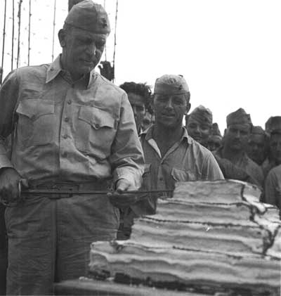 Col Harry B. "Harry the Horse" Liversedge brought the 3d Raider Battalion into existence in September 1942 and then became the first commander of the 1st Marine Raider Regiment upon its activation in March 1943. Here he cuts a cake for his raiders in honor of the Marine Corps birthday on 10 November 1943.